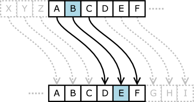 Caesar cipher with a shift of 3. Original diagram for Wikipedia, created with Dia.